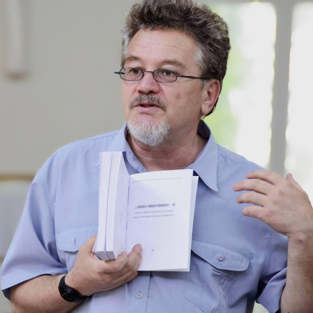 Presentation of the books "Two epochs" and "Philological essays". June 11, 2015. Ostroh.